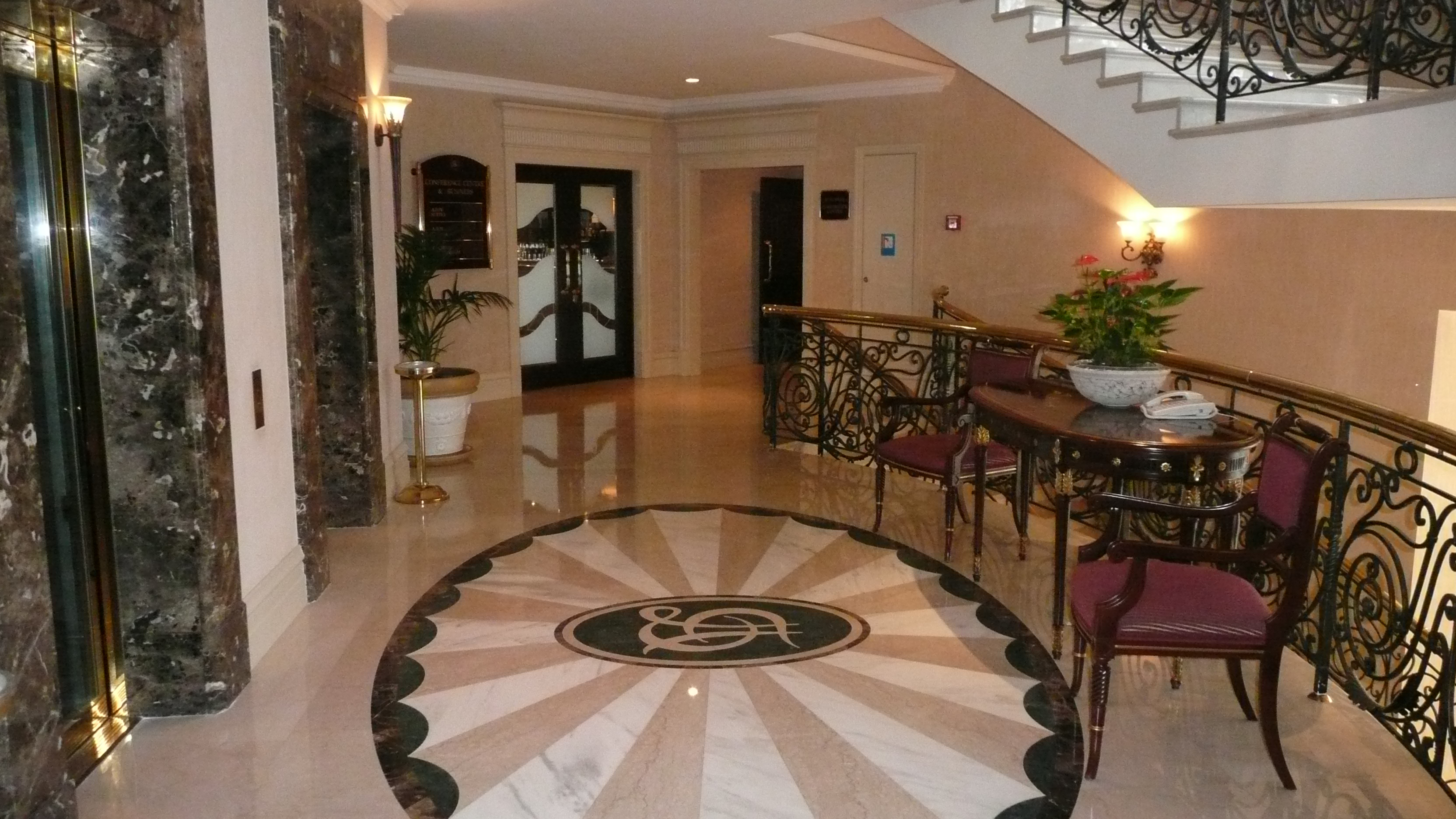 Donbass Palace - A five star hotel in Donezk (Ukraine)